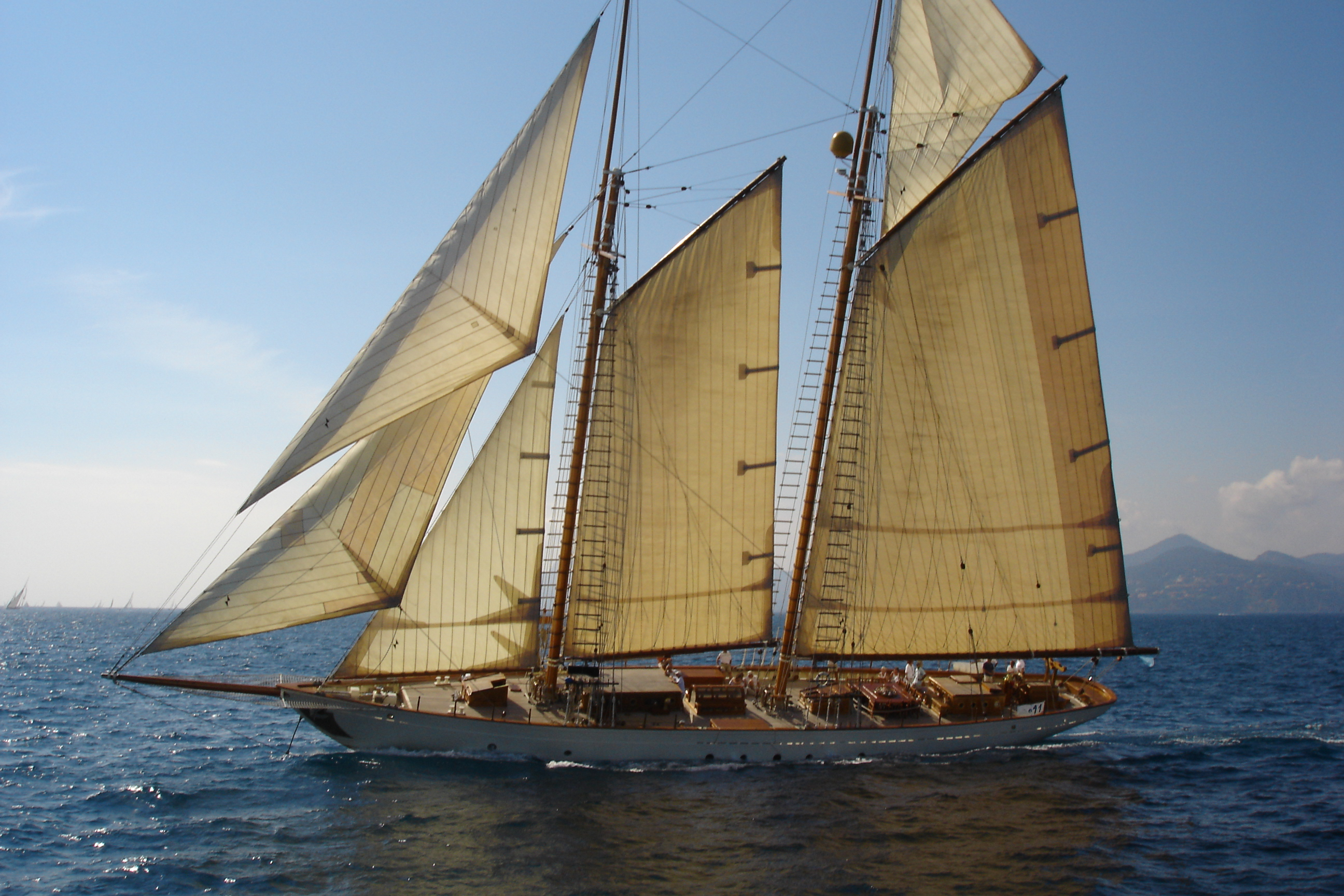 Errol Flynn's famous schooner "the Zaca"